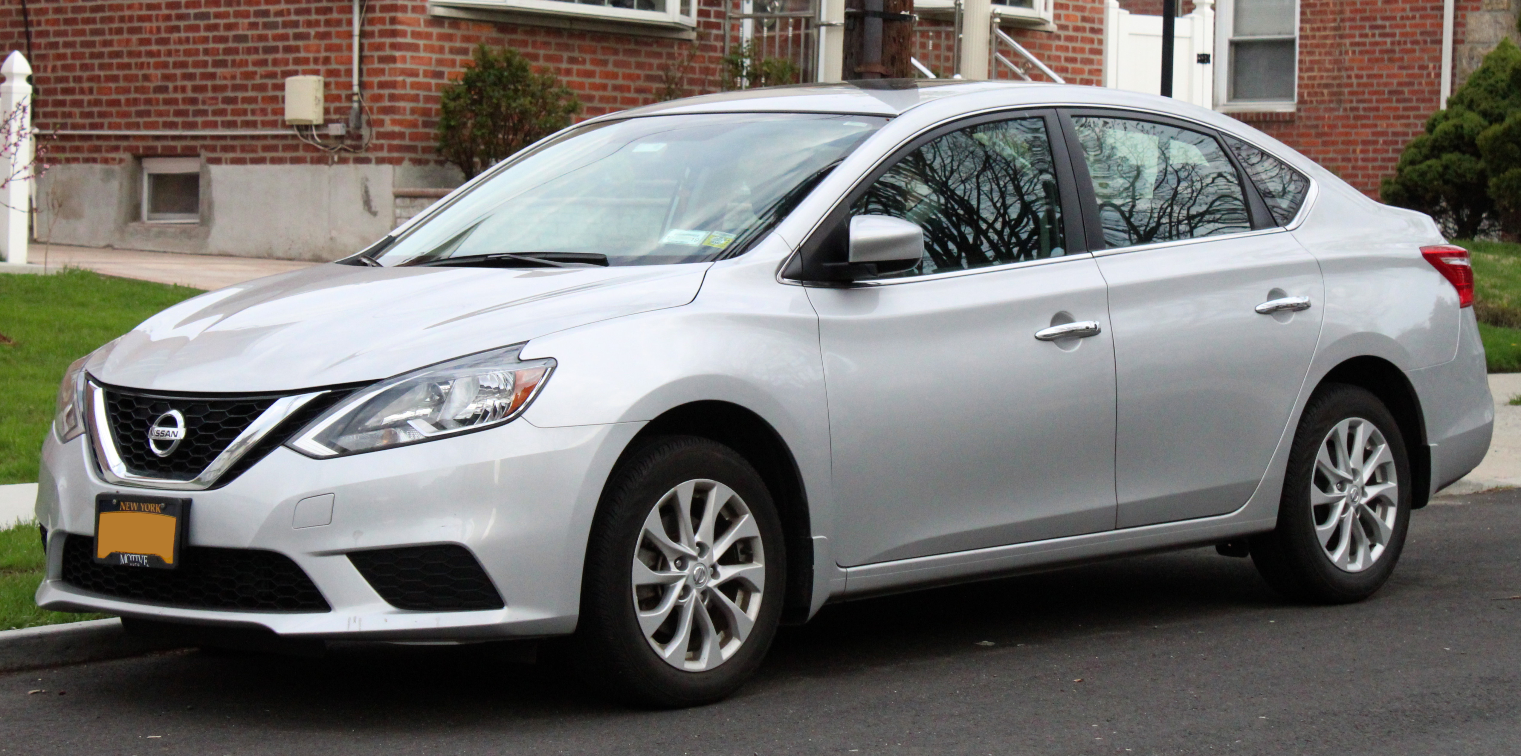 A 2017 Nissan Sentra photographed in Queens, New York, USA